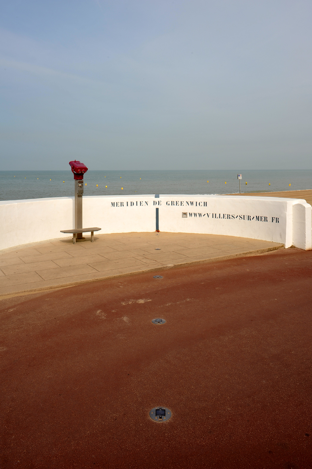 Prime meridian in Villers-sur-Mer, the northernmost location of the prime meridian on the continent; Calvados, France. The meridian runs meanwhile (2018) about 30 m east of the landmark → continental drift.